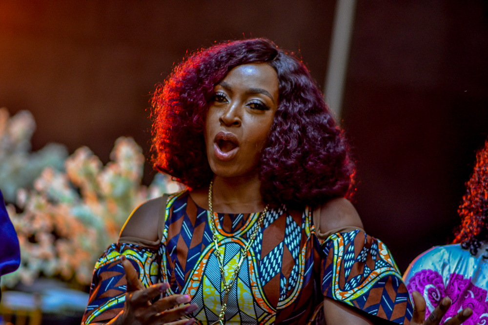 Kate Henshaw at Lawrence Onochie 50th birthday